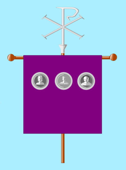 Chi Rho Constantine I .